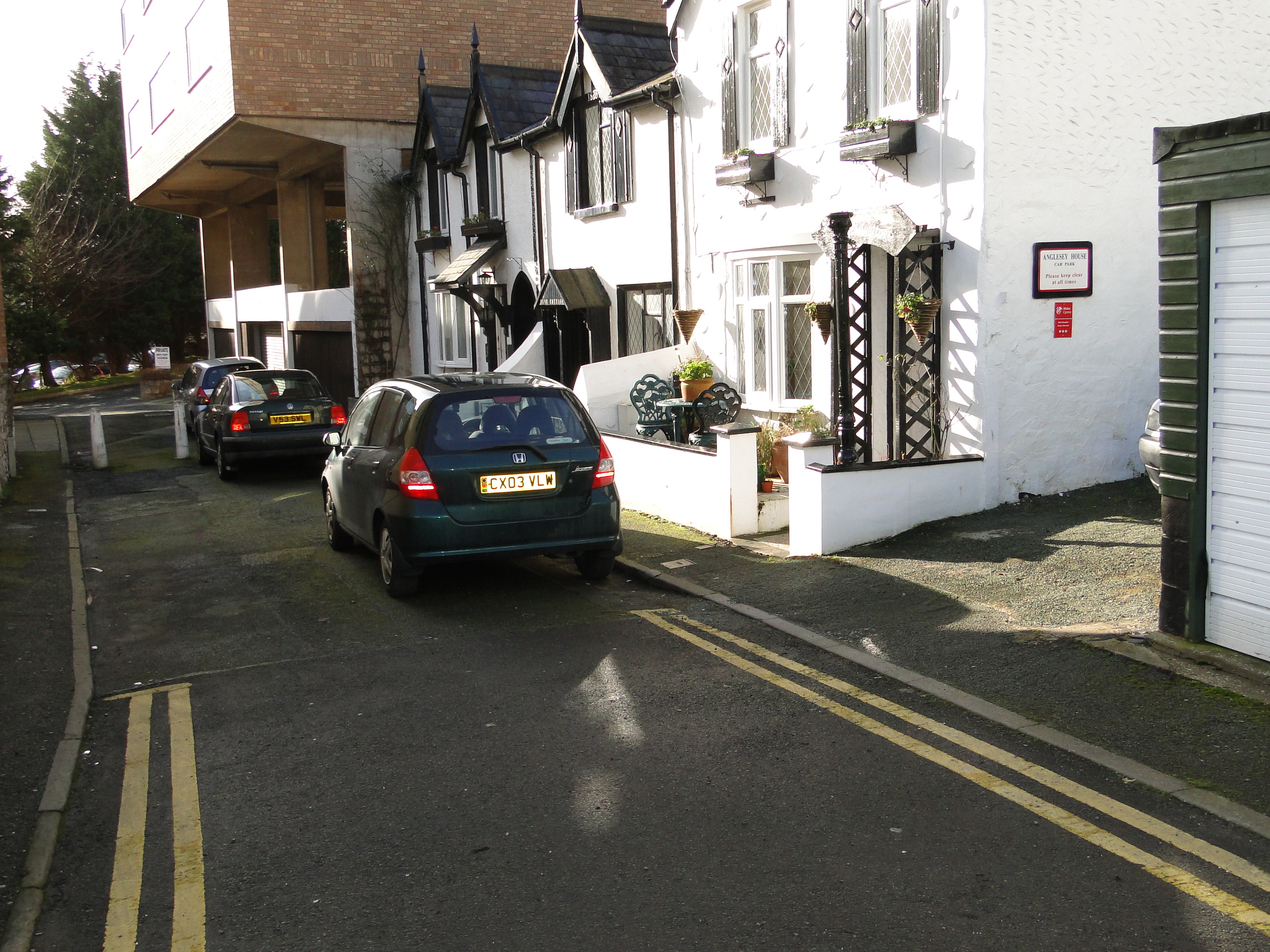 Ffynnon Fictoria, site of one of the many wells on Llandudno's Grat Orme